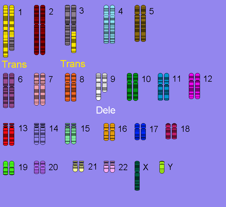 Karyotype example. Human male karyotype 46,XY,t(1;3)(p21;q21),del(9)(q22) schematic view. Translocation of the 1st and 3rd chromosome marked «Trans», deletion of 9th chromosome marked «Dele».